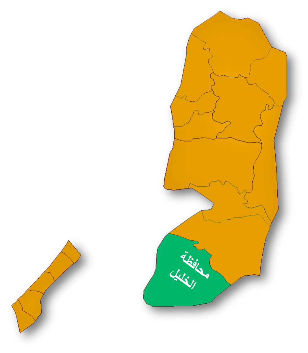 Map of the Governate of Hebron